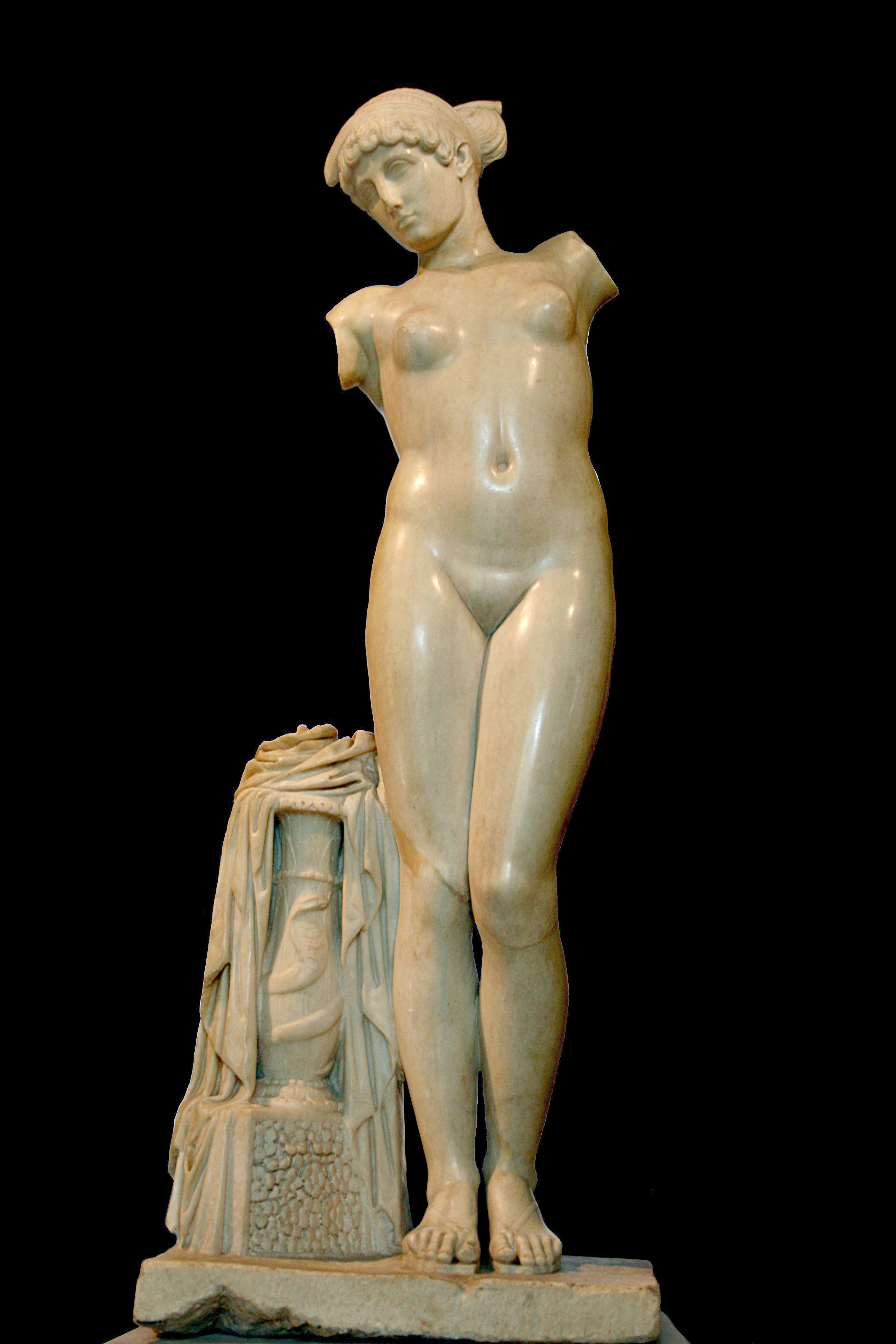 Statue of Aphrodite emerging from the water, maybe an idealized portrait of Cleopatra VII of Egypt. Late Hellenistic artwork.